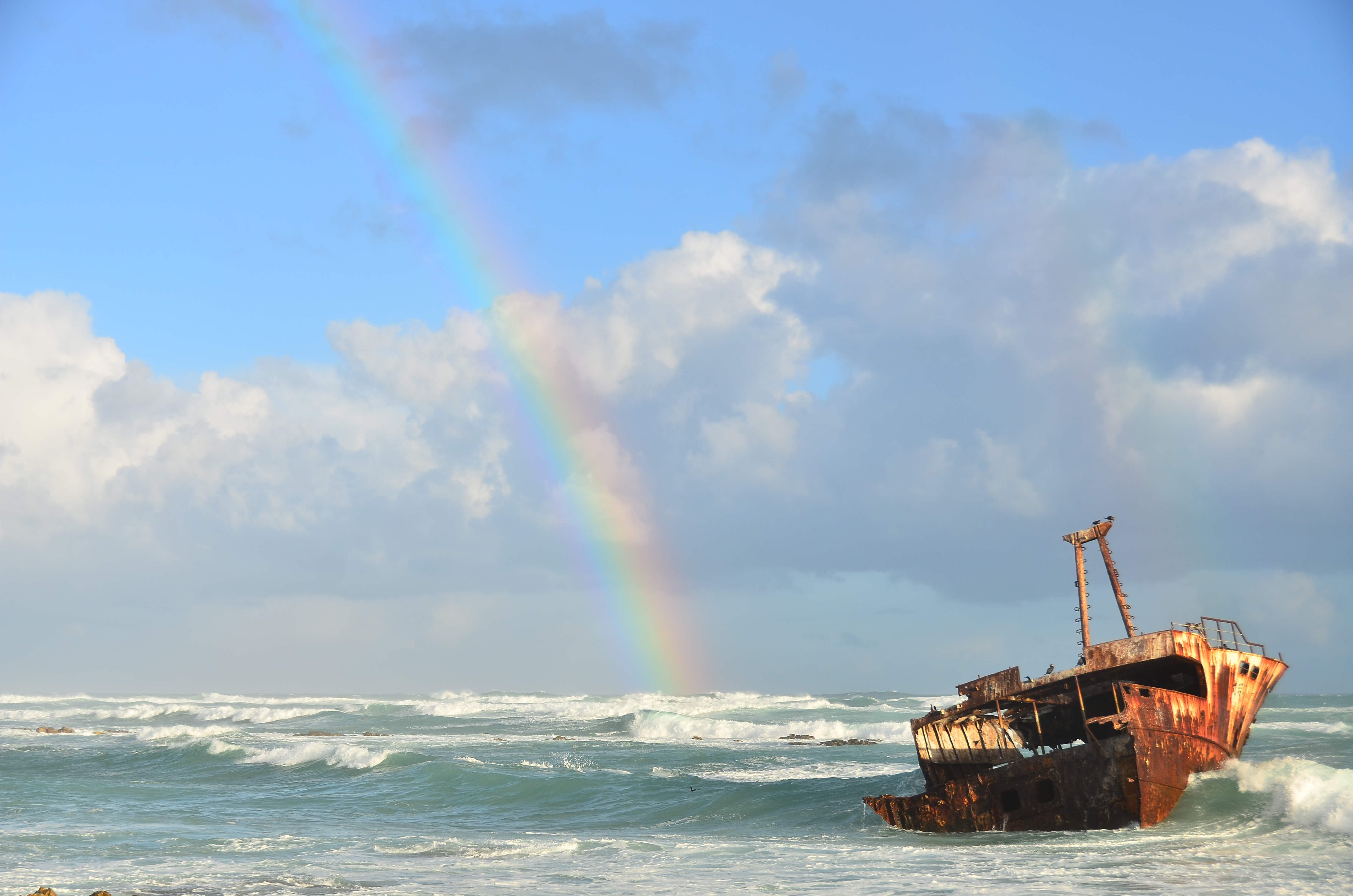 Meisho Maru shipwreck in Cape Agulhas.